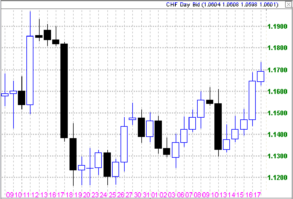 The schematic image a candlesticks chart.